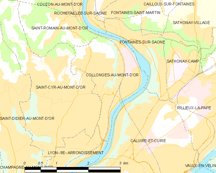 Map of French municipality